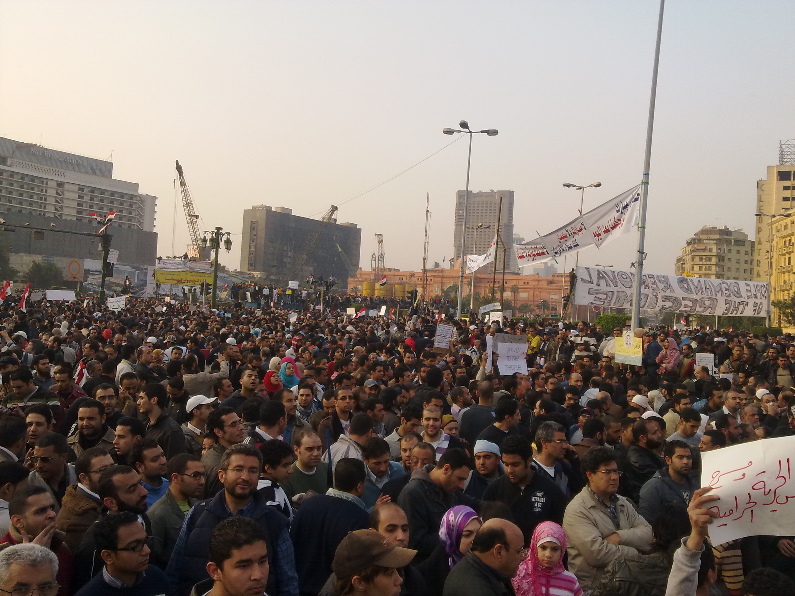 Big crowd amassed in Midan El Tahrir, Cairo during March of the Millions part of the 2011 Egyptian protests.